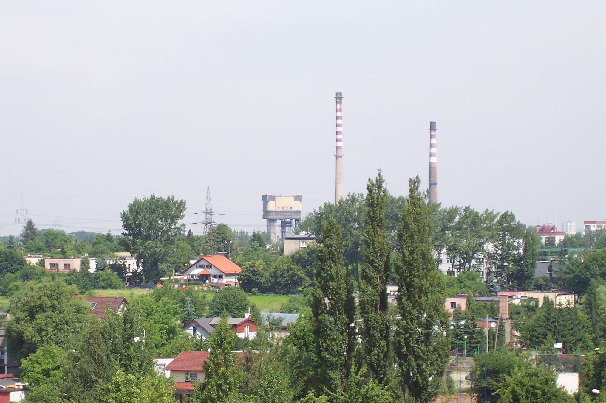 View of Brynów. In the middle coalmine Wujek. Author : Krzysztof Blachnicki